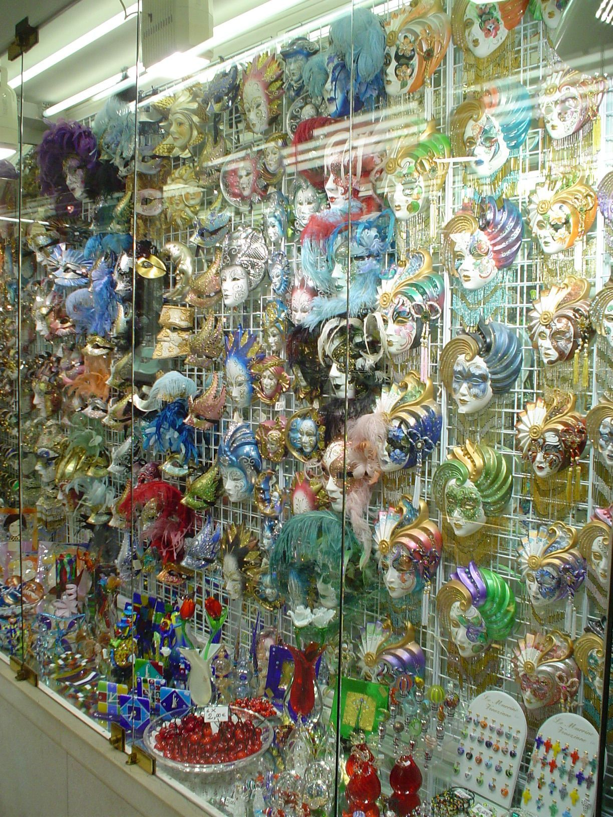 Some Masks on a store.